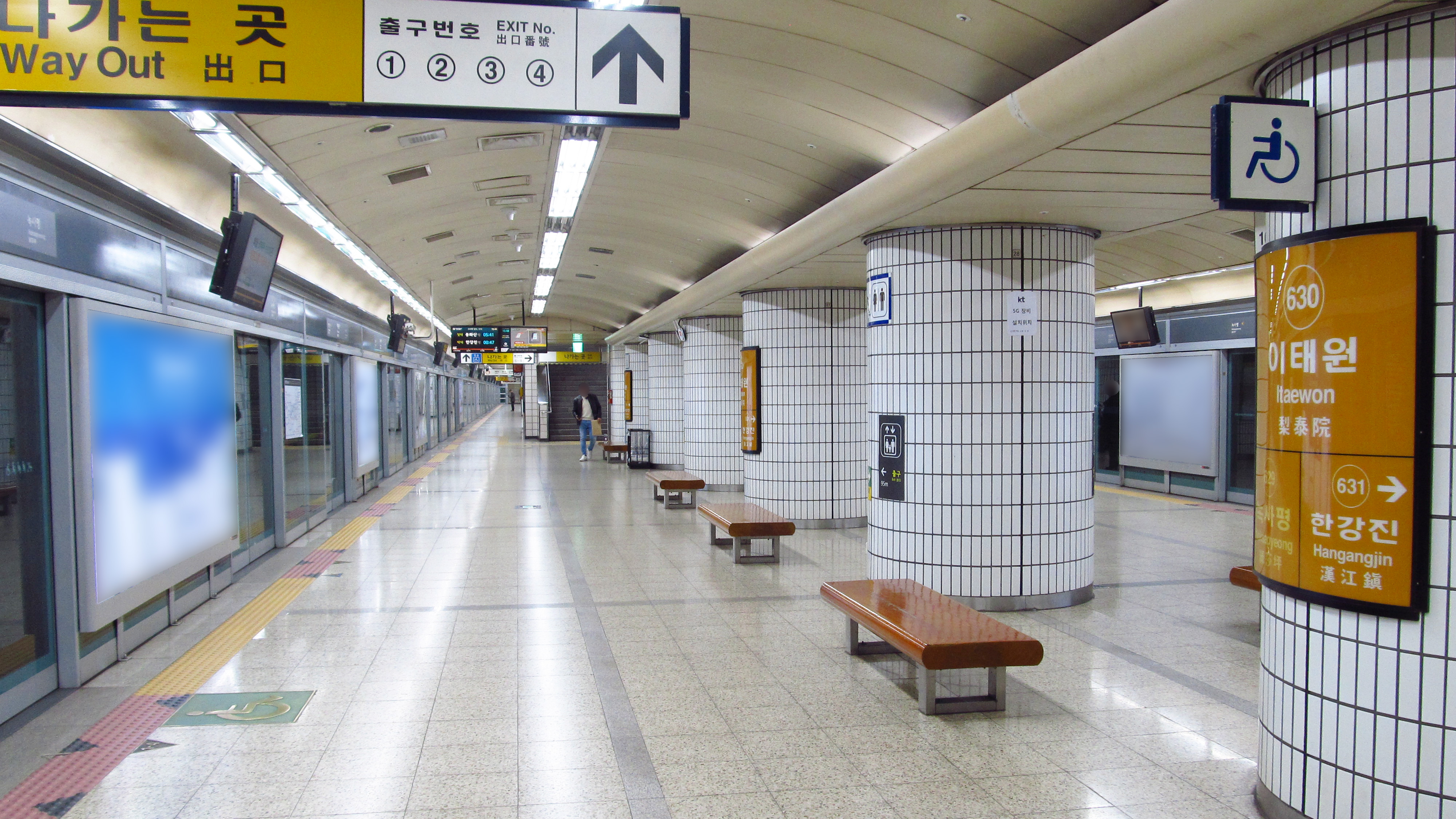 The platform at Itaewon Station on Seoul Subway Line 6 in Yongsan-gu, Seoul, Republic of Korea(South Korea)